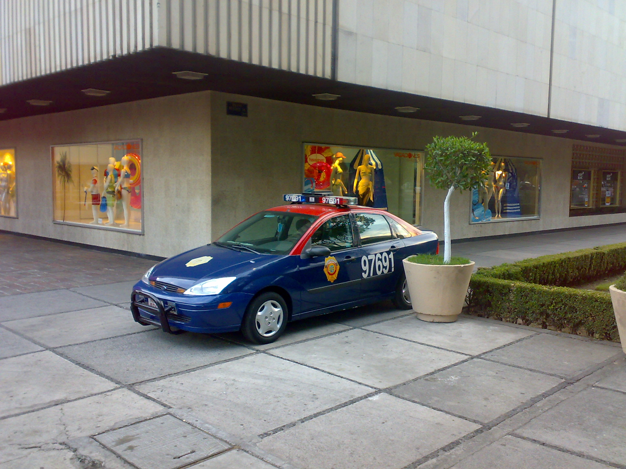 Police car Mexico City